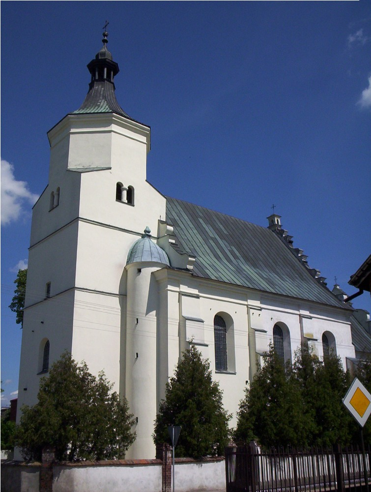 Saint Annas's church in Bolimów, Poland.